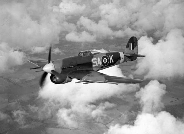 A Hawker Typhoon Mark IB (serial JP853 "SA-K"), of No. 486 Squadron RNZAF based at Tangmere, Sussex (UK), flown by P/O Frank "Spud" Murphy.